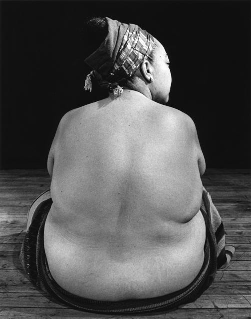 black and white photograph of Dalila Khatir